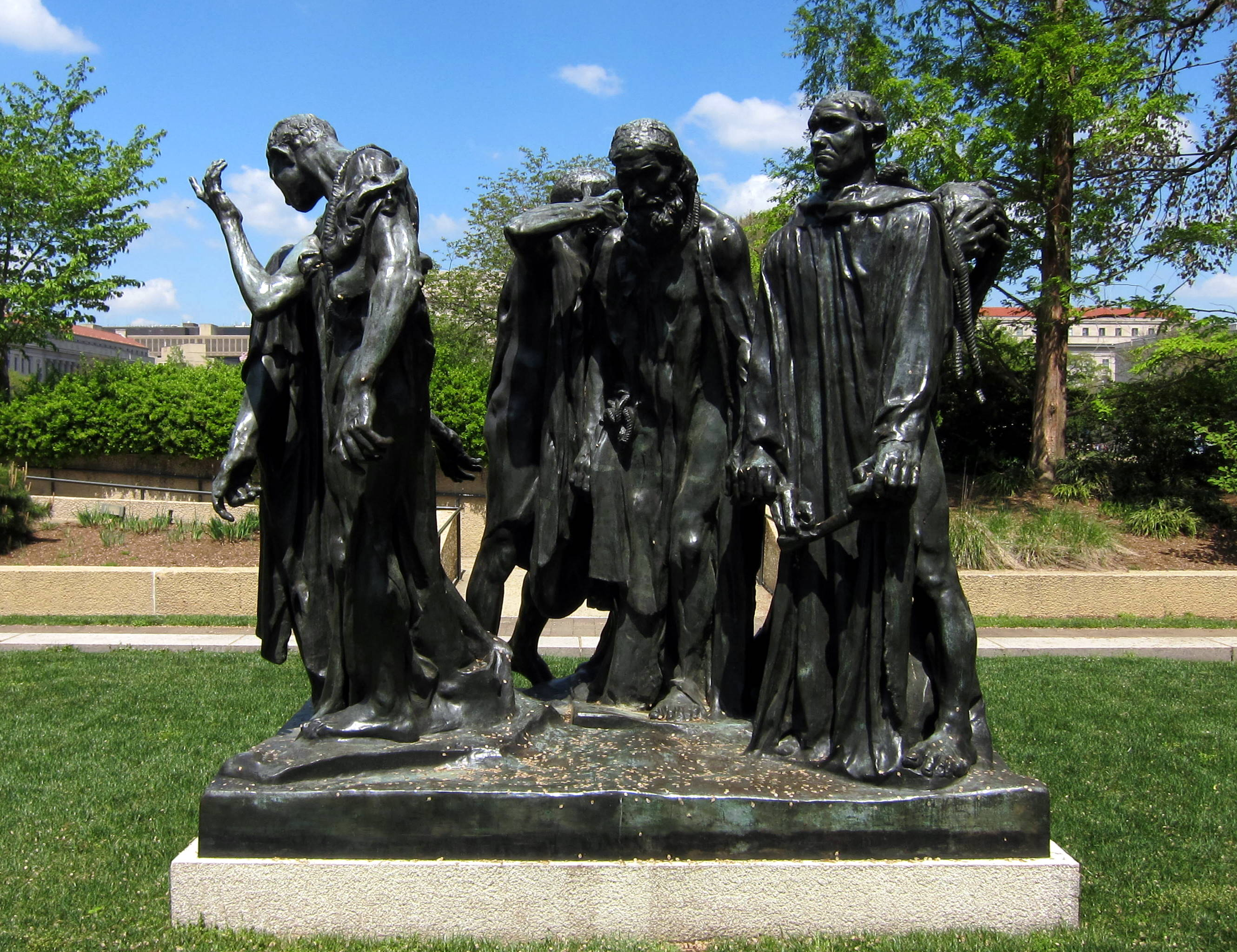 The Burghers of Calais, an 1889 sculpture by Auguste Rodin, located in the Hirshhorn Museum's Sculpture Garden, on the National Mall in Washington, D.C.